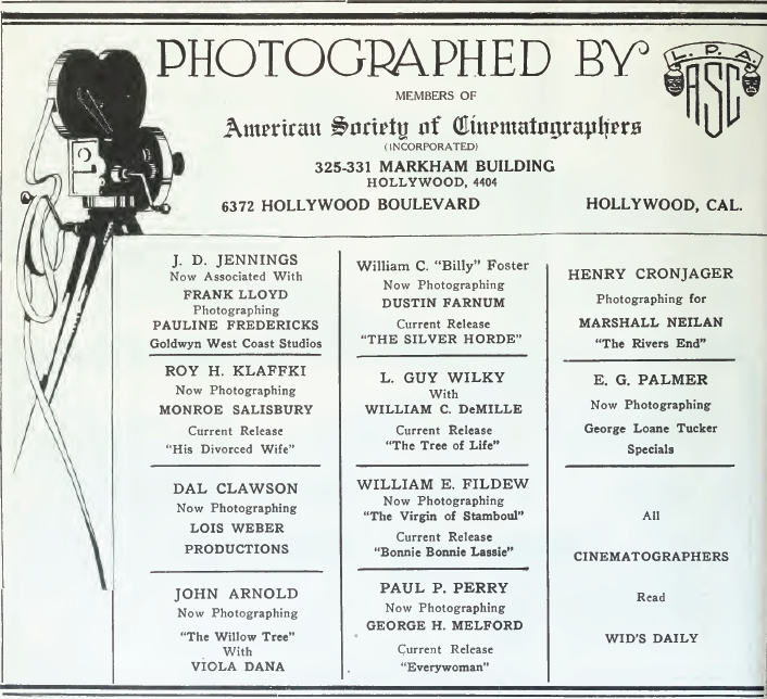 American Society of Cinematographers Film Daily 1920